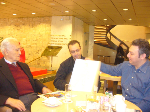 Greek writer Potis Stratikis (left), Greek comics artist Panagiotis Liris (center) and greek writer Panagiotis Plafountzis (right)